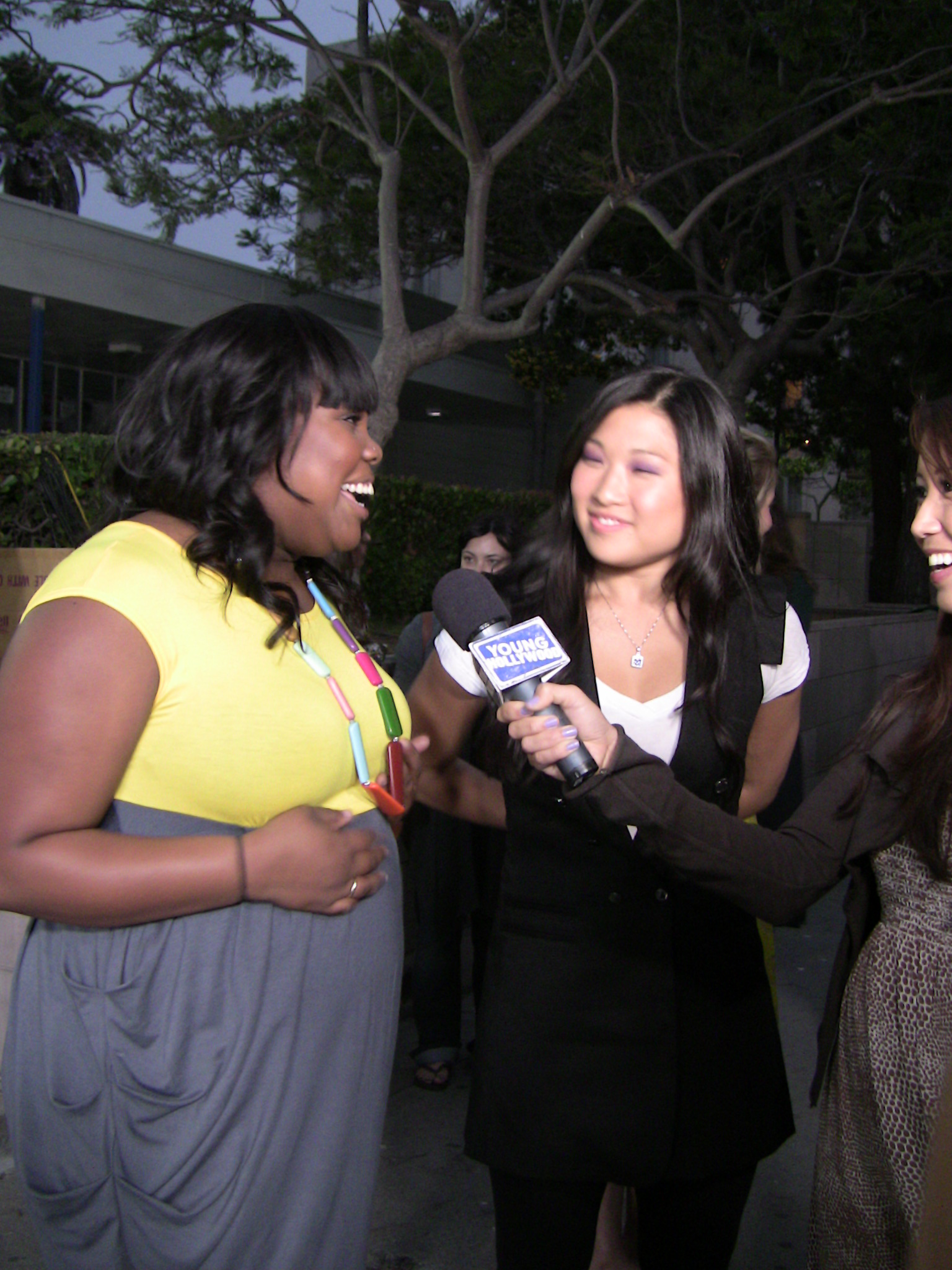 Amber Riley & Jenna Ushkowitz - Glee Premiere Party - Santa Monica High School, Santa Monica, California - May 11, 2009